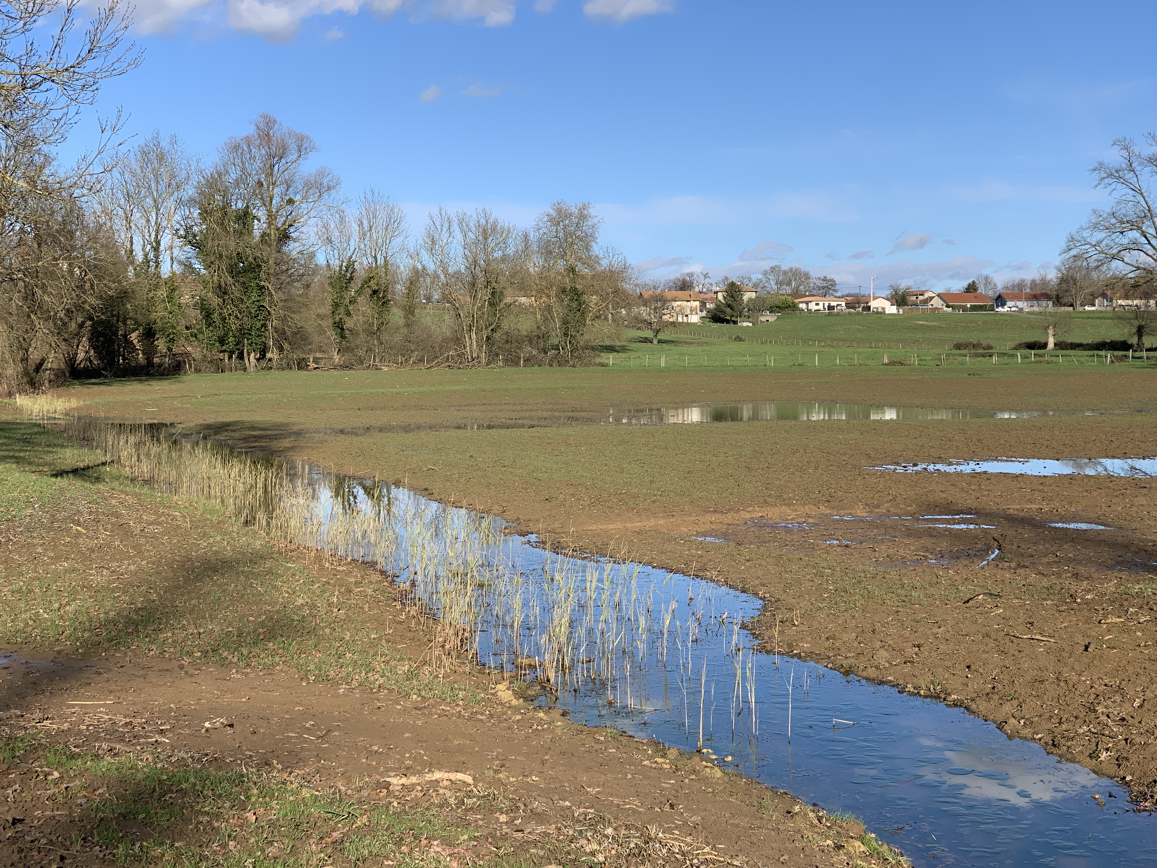 Tiny marsh in Saint-Cyr-sur-Menthon, France.